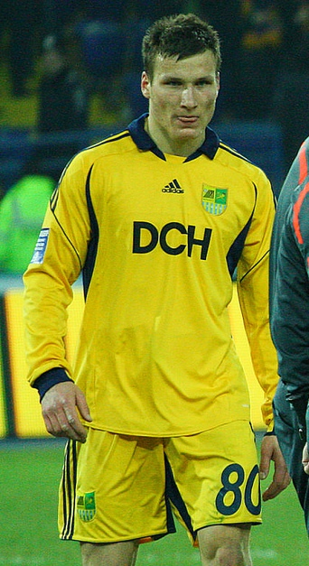 Lukáš Štetina playing for Metalist Kharkiv against FC Dnipro, 13 March 2011.